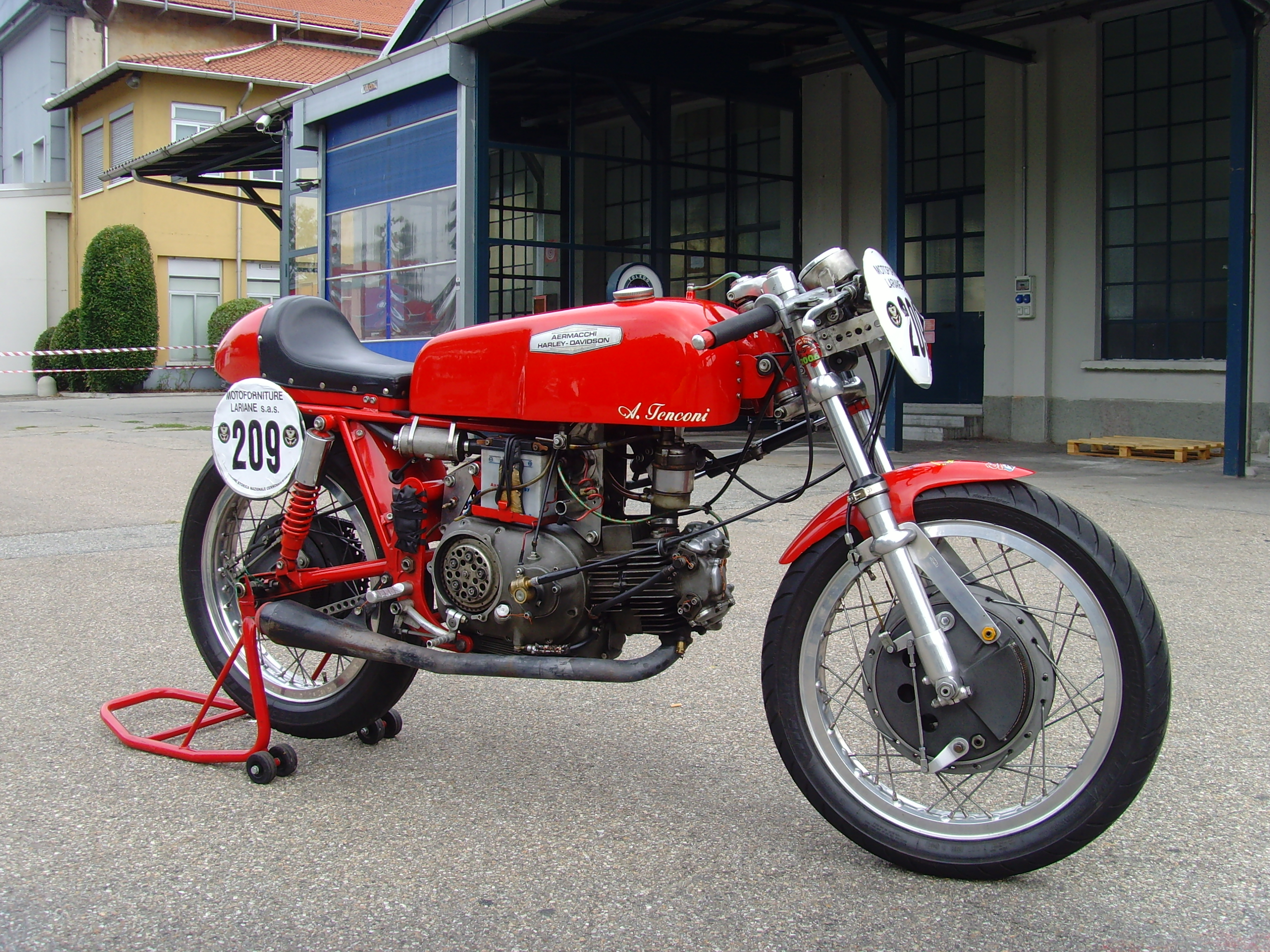 Aermacchi-Harley Davidson 250 Ala d'Oro racing